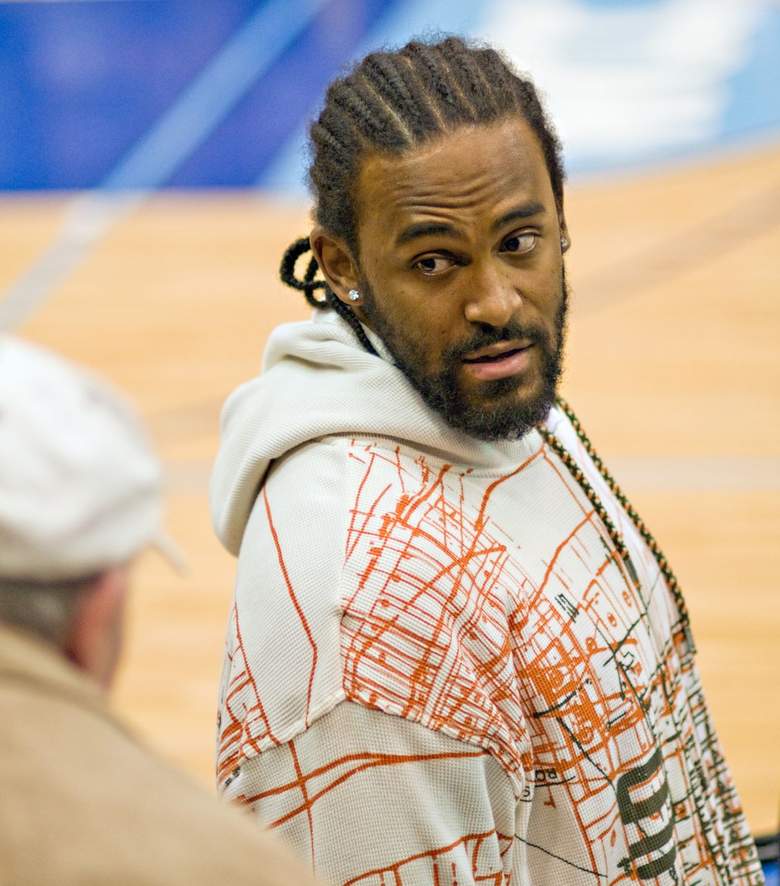 Former Gonzaga star, current LA Lakers player, came to watch his old team